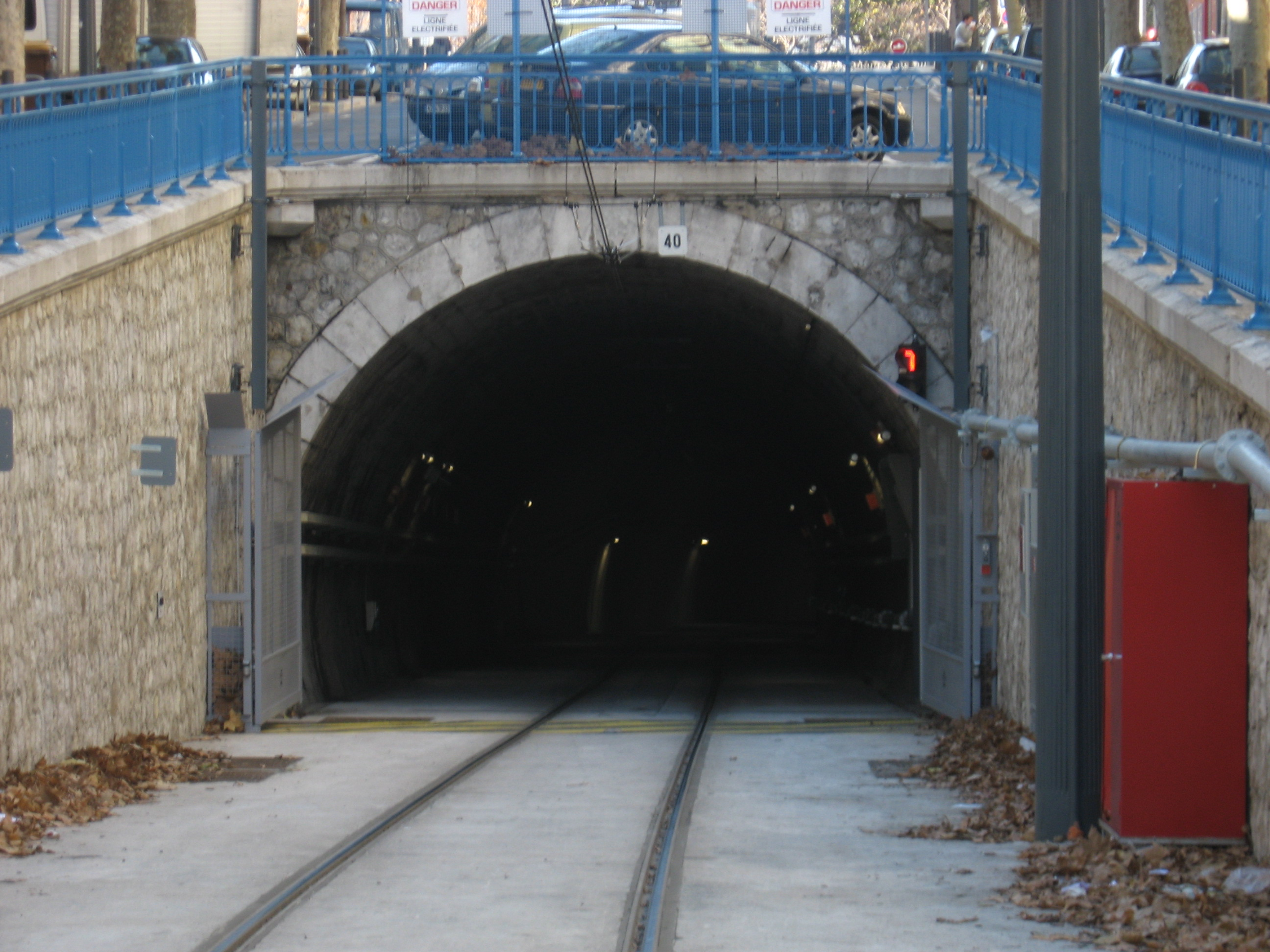 Renovated tramtunnel for line T1 (ex 68). Now single track.